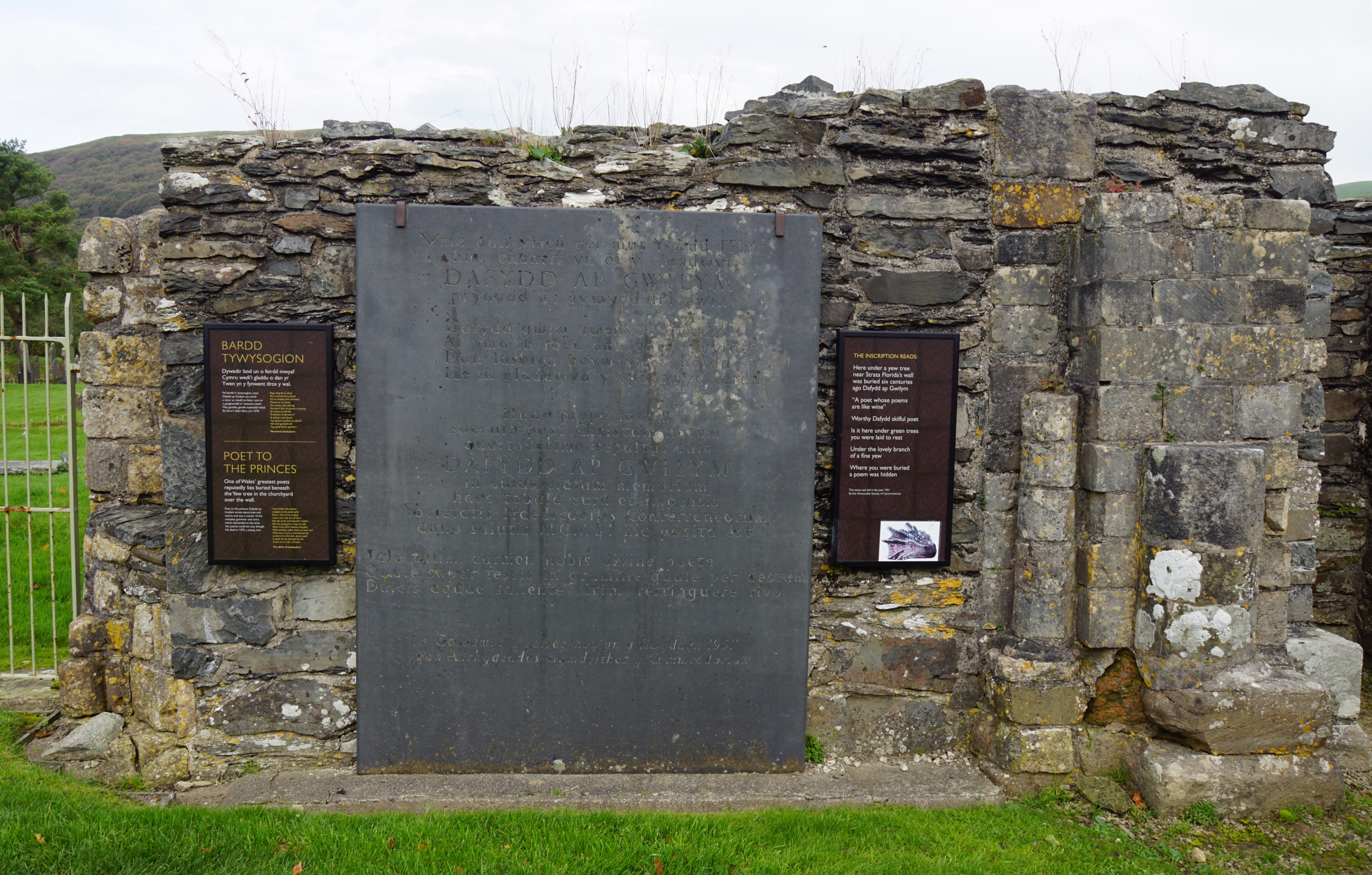 Strata Florida Abbey, Wales. Memorial for poet Dafydd ap Gwilym in the northern transept.